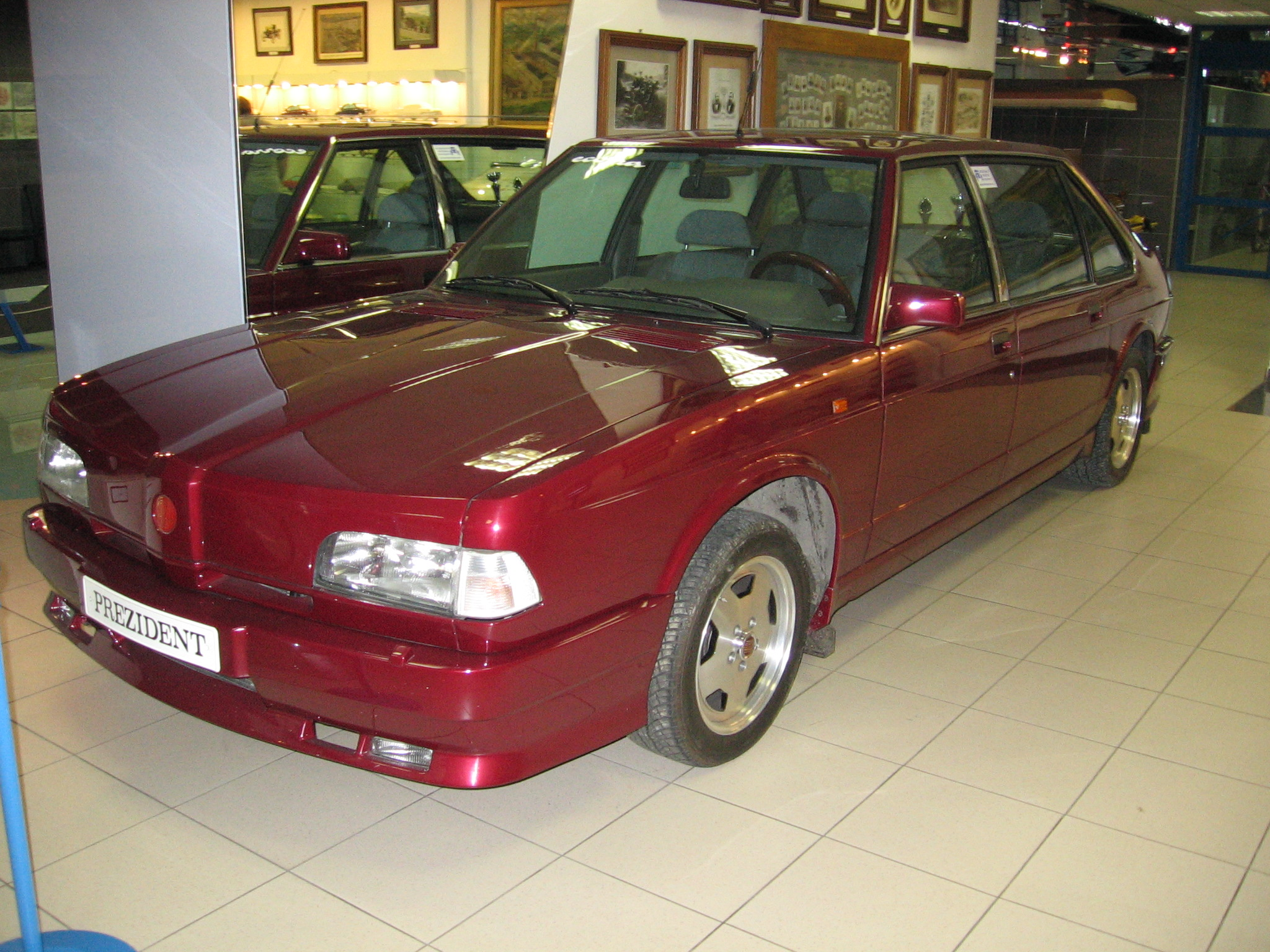 Tatra President in Technical museum Tatra in Kopřivnice, Czech Republic